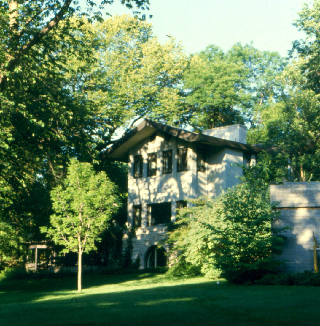 photo by Einar Einarsson Kvaran for Walter Burley Griffin and perhaps Mason City, Iowa